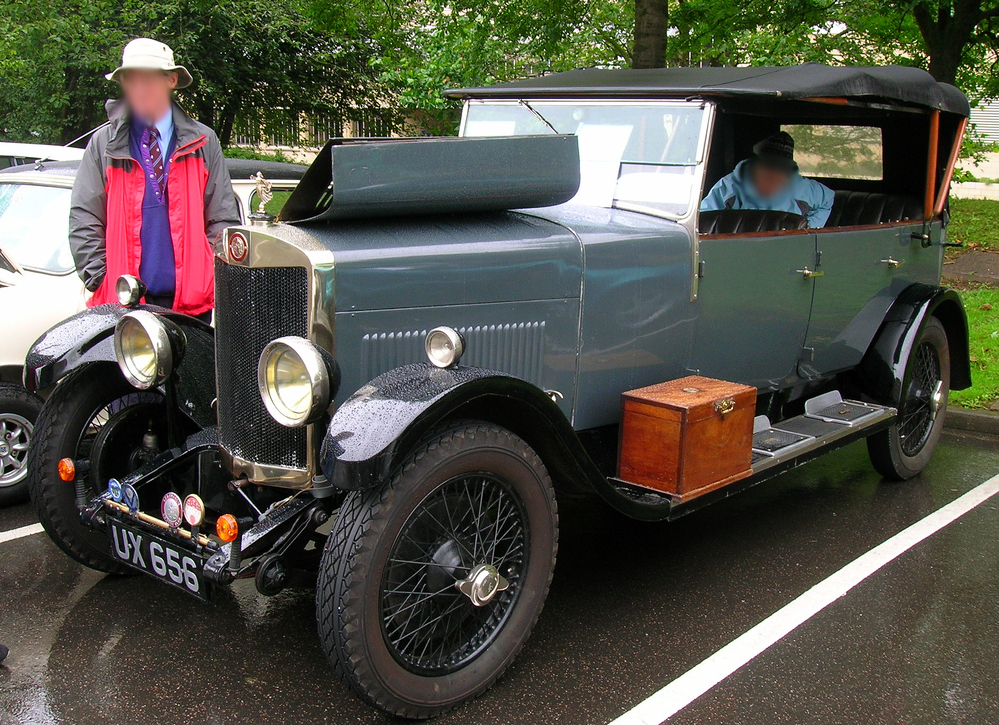 A 1927 Lea-Francis 14/40 1LFS. This was actually built by a company associated with Lea-Francis called Vulcan Engineering. It has a twin-cam engine of 1697cc and 40hp, an engine which was sadly very unreliable and cost Lea-Francis a lot of money in repairs.